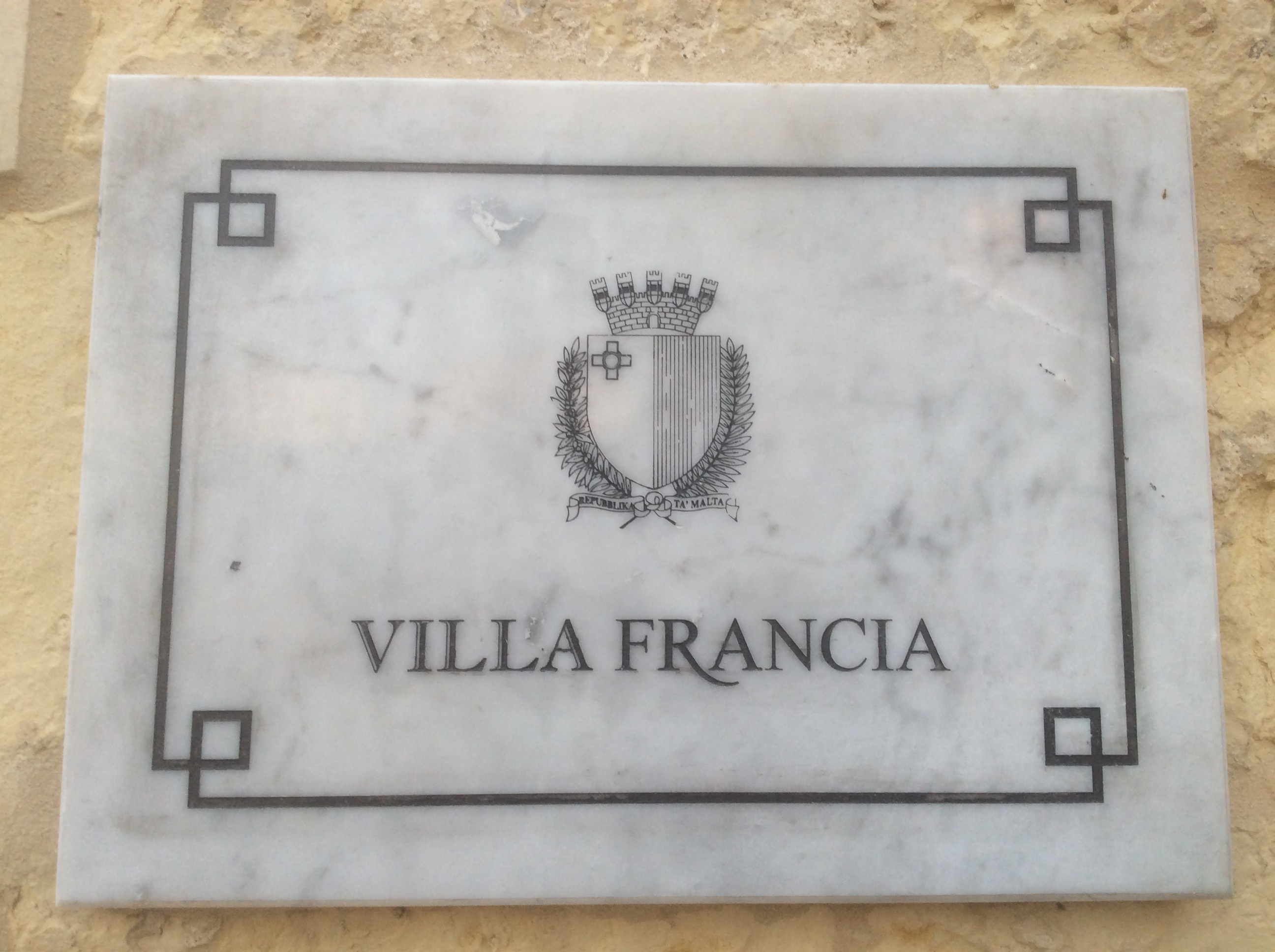 Villa Francia Plaque Lija Malta